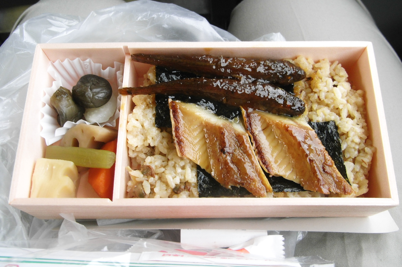 Fukagawa-meshi. This one is available as Ekiben at Tokyo Station in Tokyo, Japan.